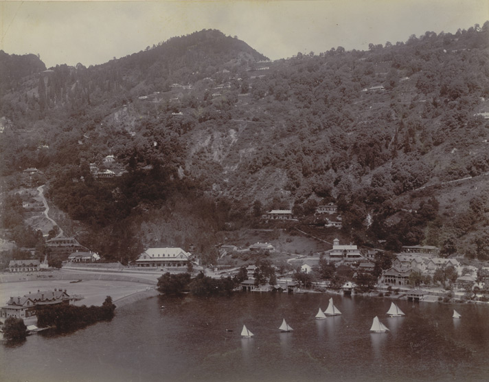 The Flats, Nainital, Details 1899. In 1841, P. Barron built the first European house around the lake. Soon it became known for its several European schools, barracks and a sanatorium.